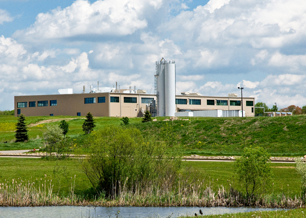 The first LEED Platinum Certified food manufacturing plant built in 2009 by Shearer's Foods, Inc. The plant is located in Massillon, Ohio and was the first to receive such certification in Ohio.